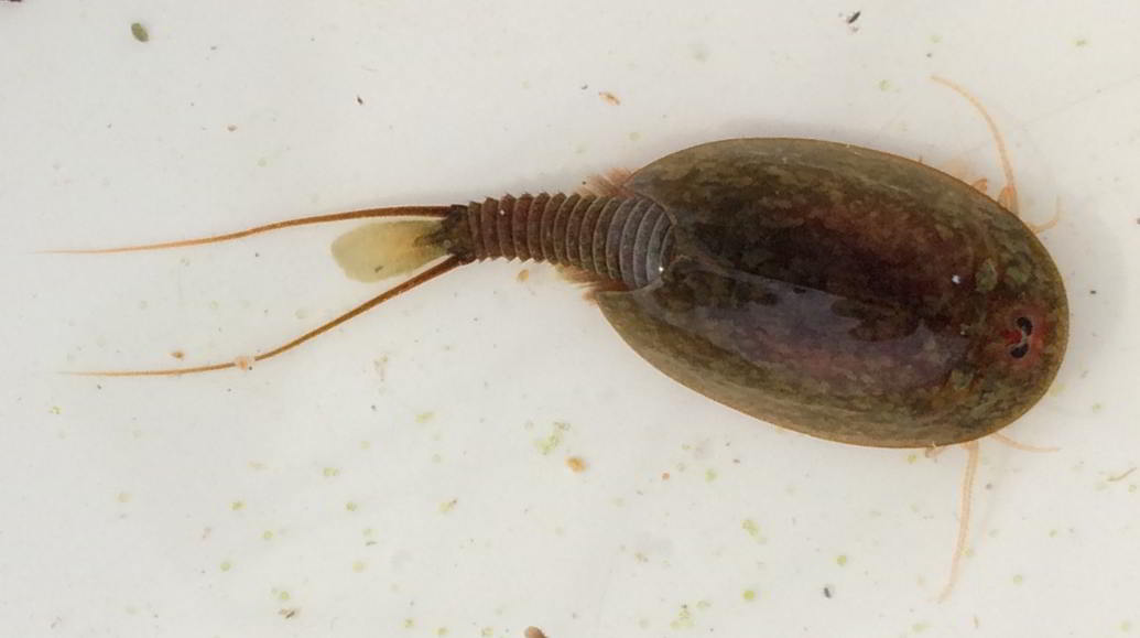 A small benthic freshwater crustacean of the genus Lepidurus.